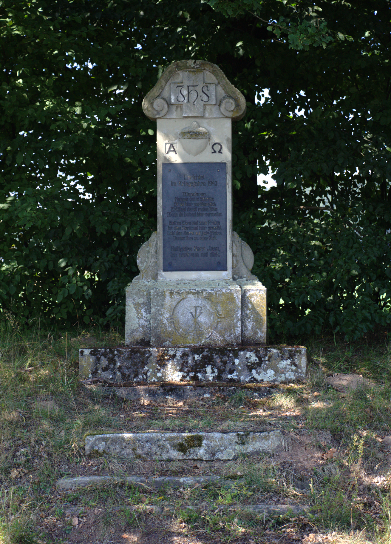 Memorial near Rommerz, Neuhof, Hesse, Germany